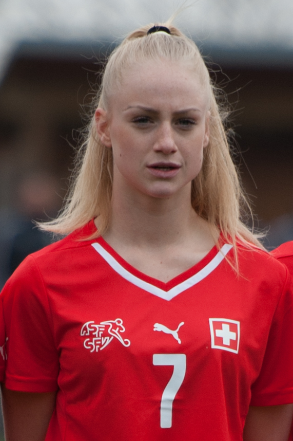 UEFA European Women's U17 Championship elite round Germany vs. Switzerland, 2016-03-19